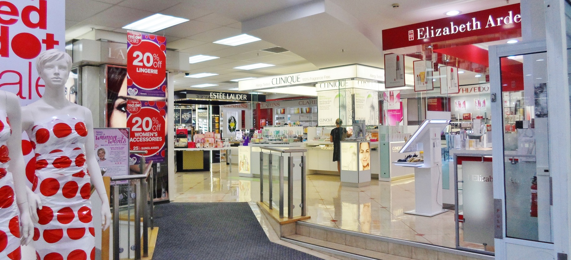 Cosmetics at Lambton Quay branch of New Zealand department store Farmers Trading Company in Wellington. Showing right half of Cosmetics department with counters for beauty houses Lancôme, Esteé Lauder, Clarins, Clinique, Shiseido, and Elizabeth Arden in 2015.